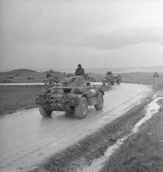 Staghound armoured cars of the New Zealand Divisional Cavalry, negotiating wet and muddy roads on the way to the forward areas in Italy during World War 2.